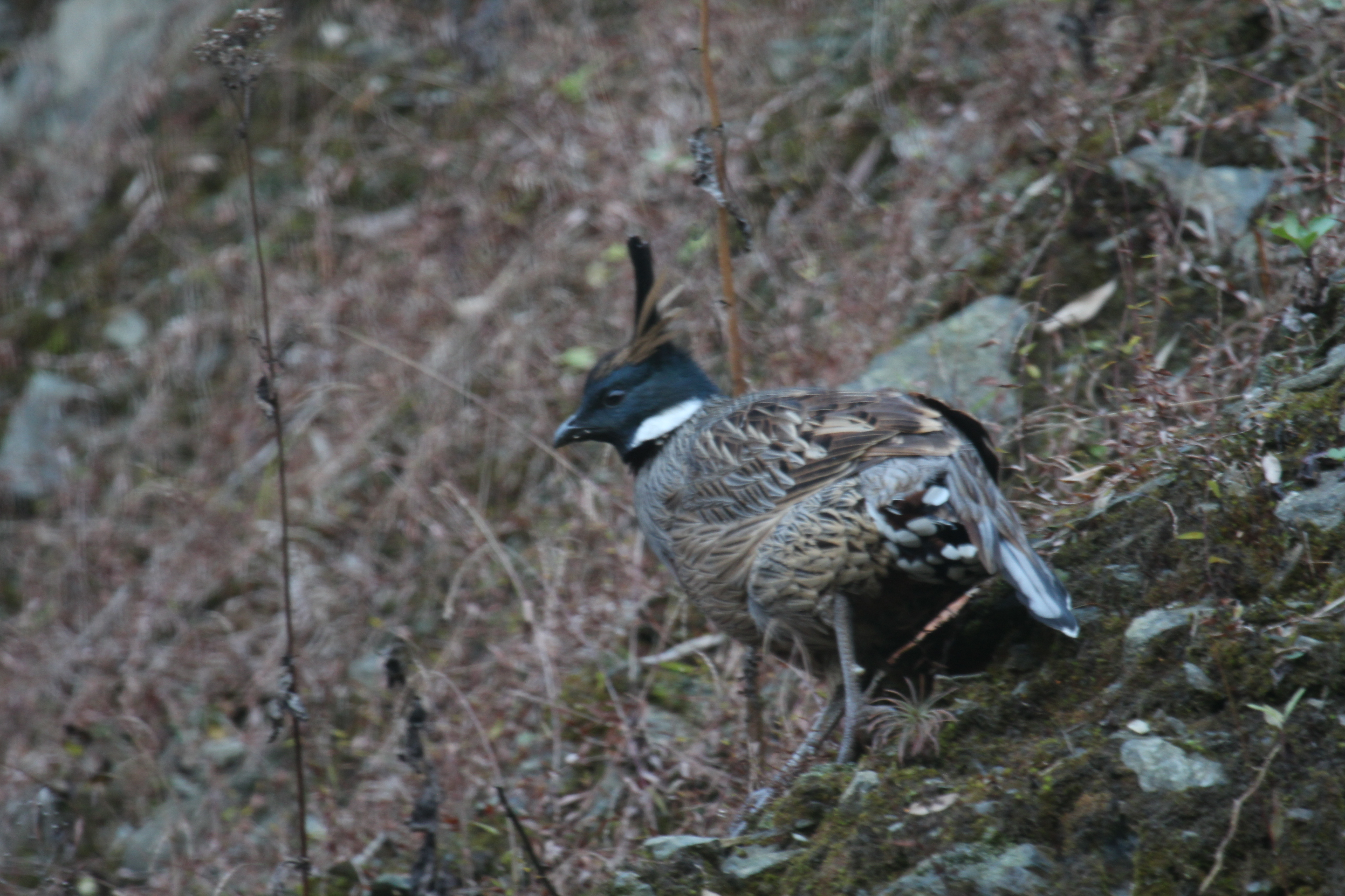 Through a vehicle window at an oblique angle! The Chinese name (勺鸡, sháo jī) is literally "spoon chicken" presumably from the odd crest.